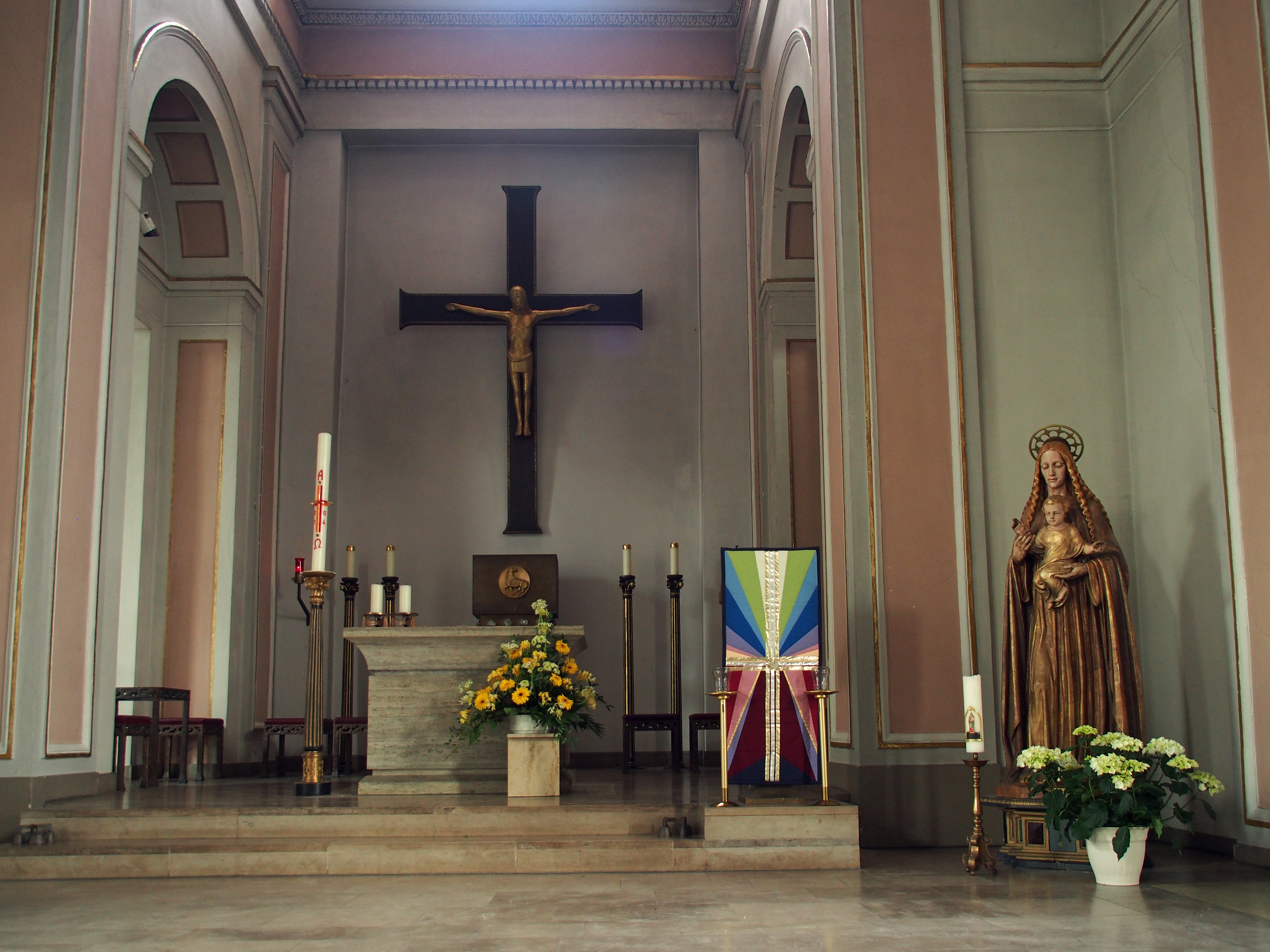 Altar of Church St.Ludwig Celle, Lower Saxony, Germany